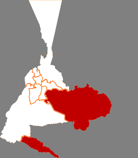 Location of Dabancheng District in Urumqi City, China